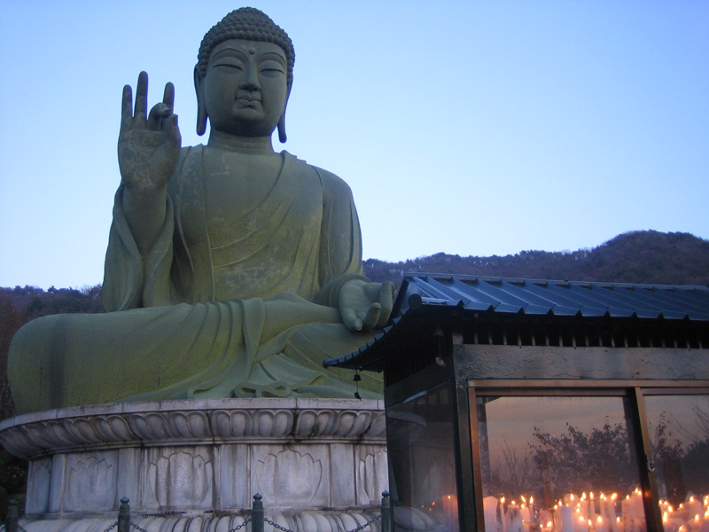 Joabulsang, a bronzed statue of Buddha atop Mt. Taejosan in Cheonan, South Korea.